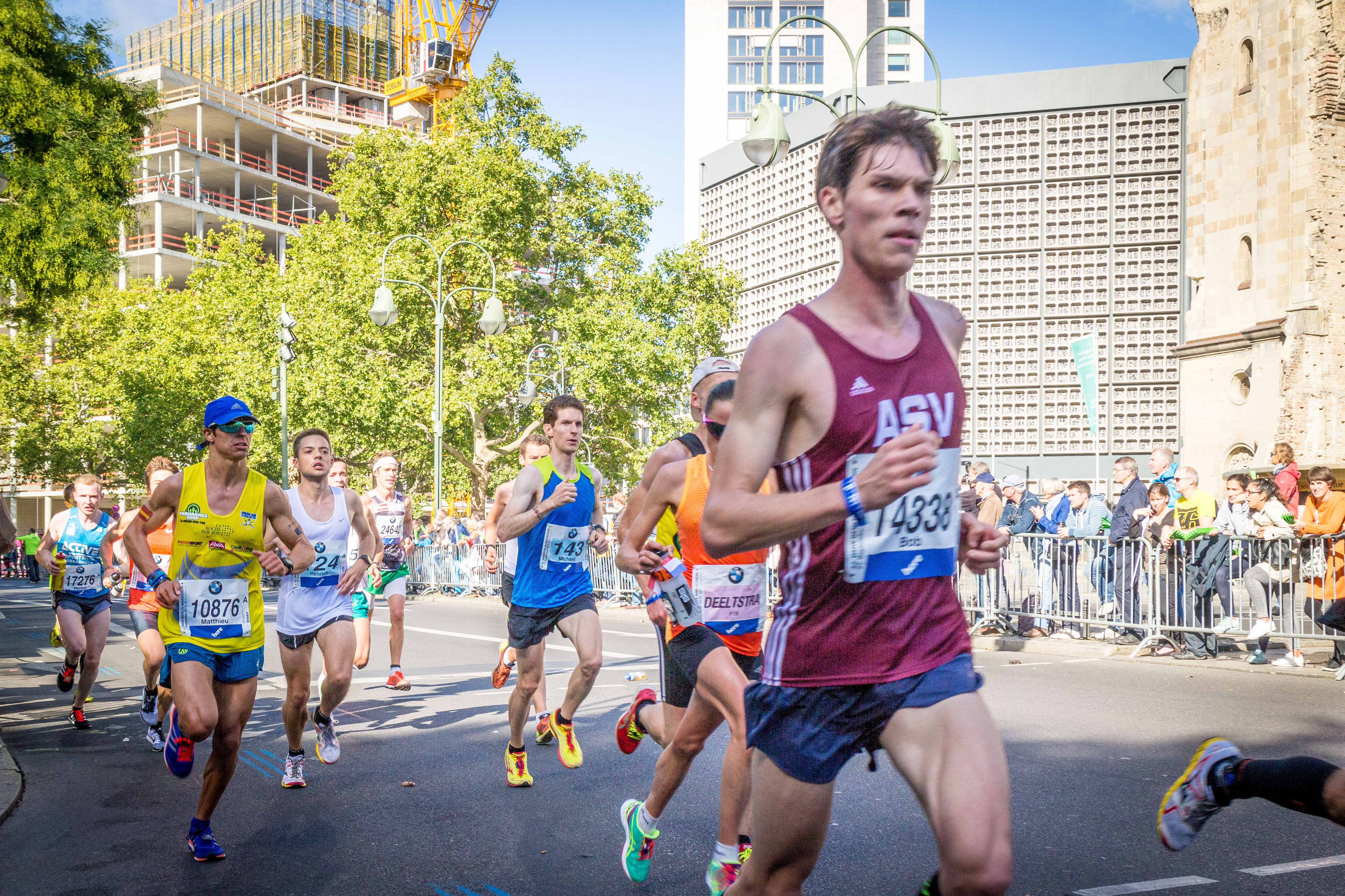 by @Sebaso CCBA4.0